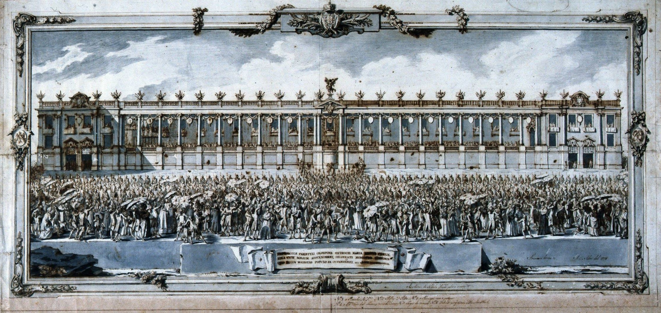 Balcony of the Acclamation of Queen Maria I of Portugal, 13 May 1777. Print dated 1778 and signed by Joaquim Carneiro da Silva.